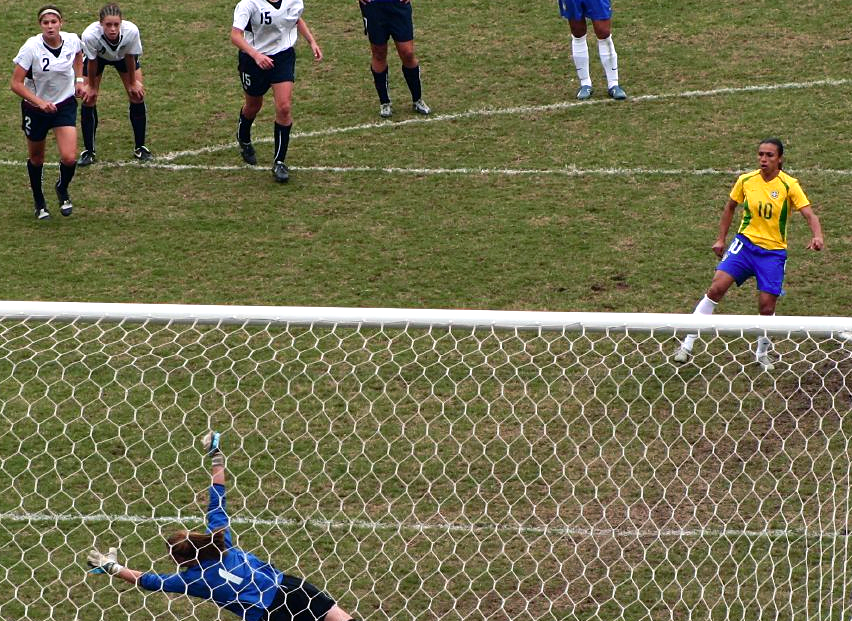 Marta scoring a penalty during the final of the 2007 Pan American Games (cropped from Image:Marta-3.jpg)